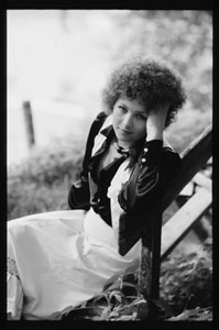 Gisèle Sallin